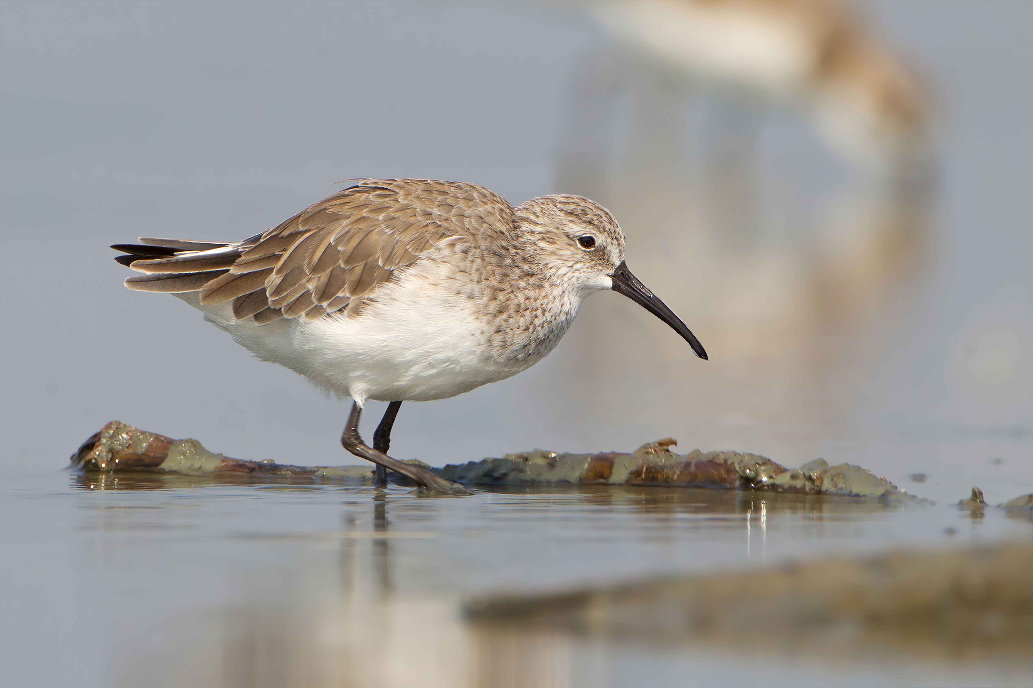 Curlew Sandpiper (Calidris ferruginea), Pak Thale, Petchaburi, Thailand